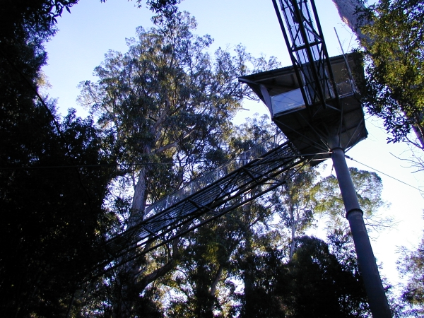 Tahune Forest Walk, Tasmania